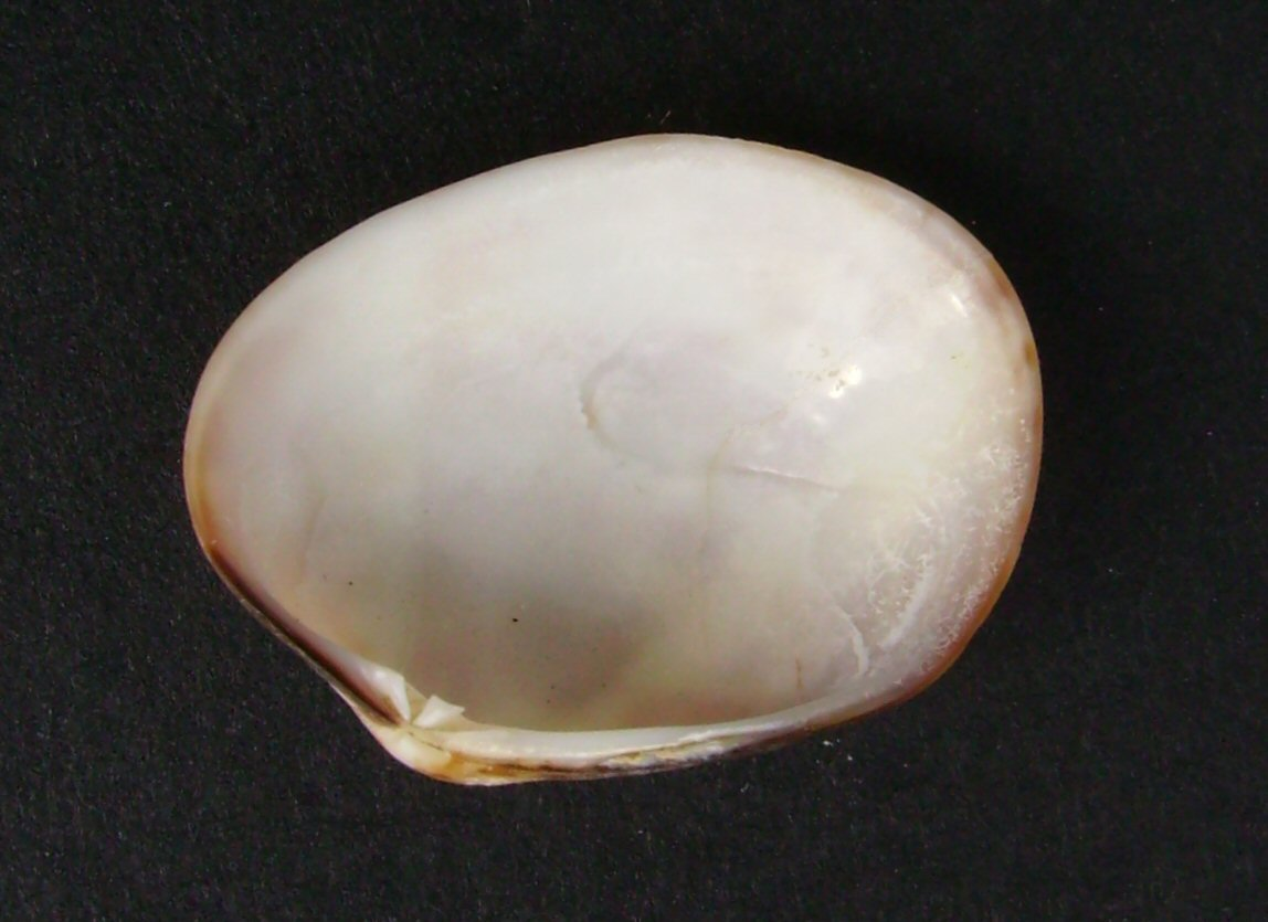 Ruditapes largillierti (inside) from Motuora Island, near Auckland, New Zealand. This work has been released into the public domain by its author, Graham Bould. This applies worldwide. In some countries this may not be legally possible; if so: Graham Bould grants anyone the right to use this work for any purpose, without any conditions, unless such conditions are required by law. .